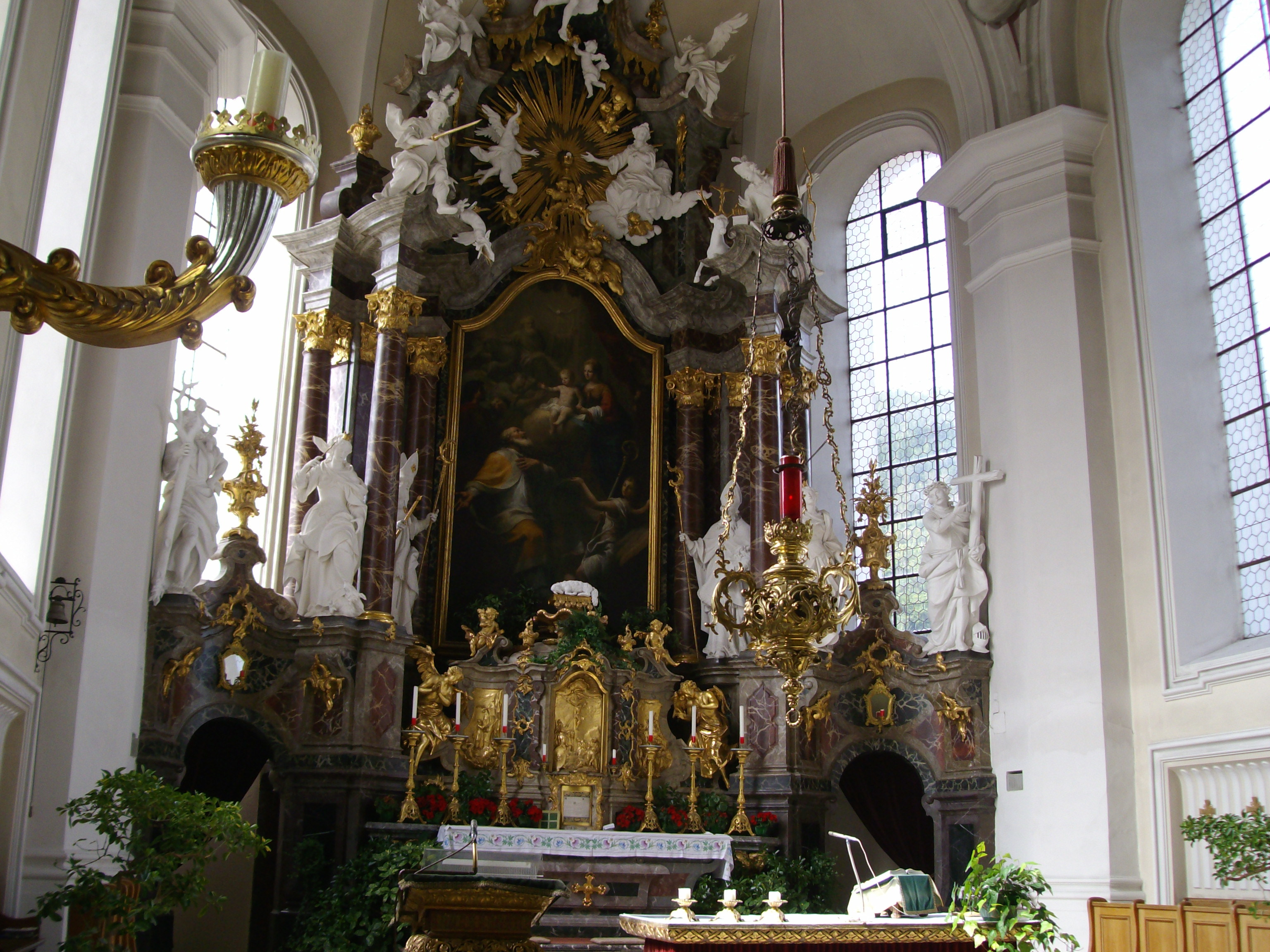 Austria, Tyrol (state), Steinach am Brenner, Pfarrkirche St. Erasmus. The main altar restored in baroque style in 1958.